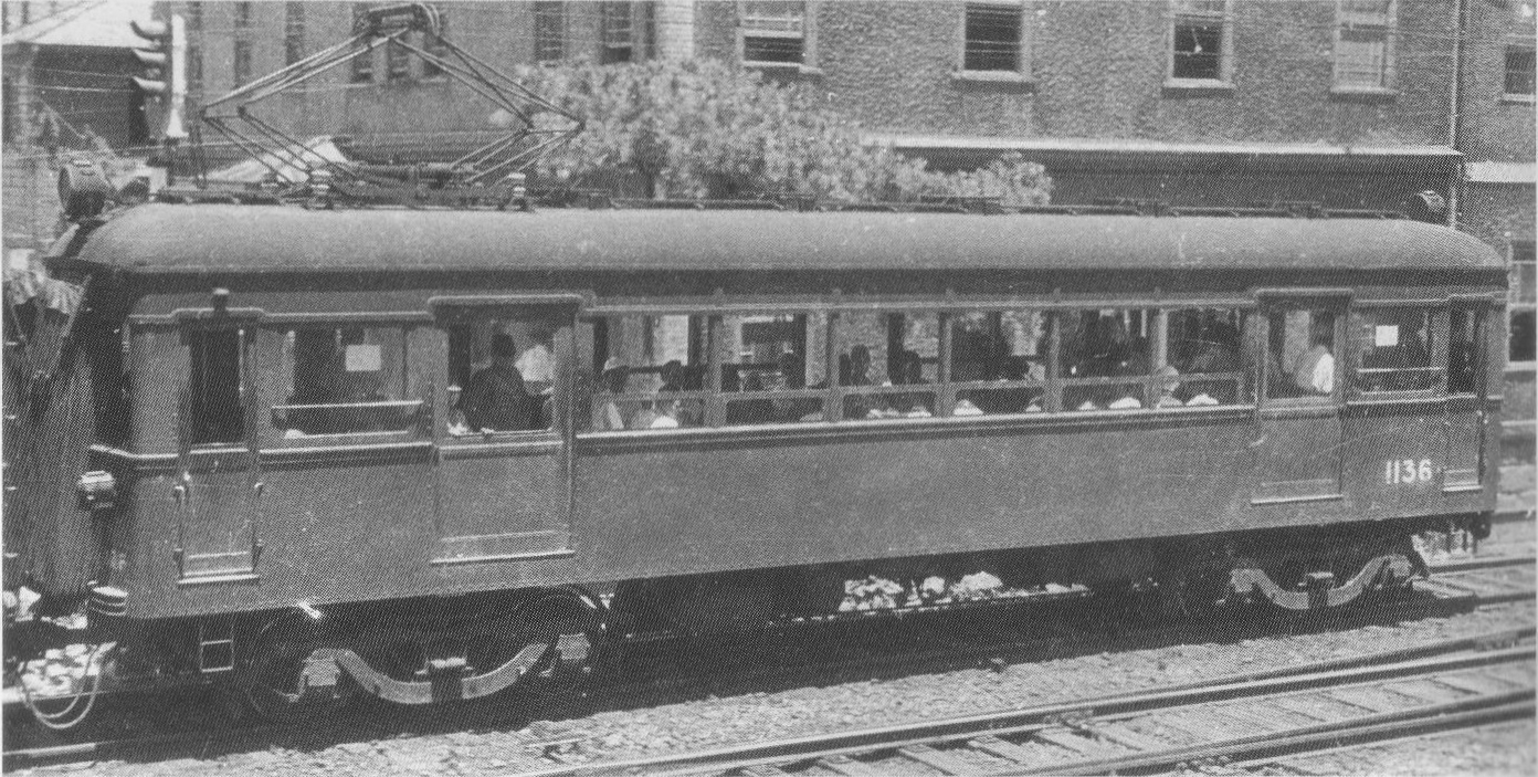 Hanshin #1136. taken in 1946.